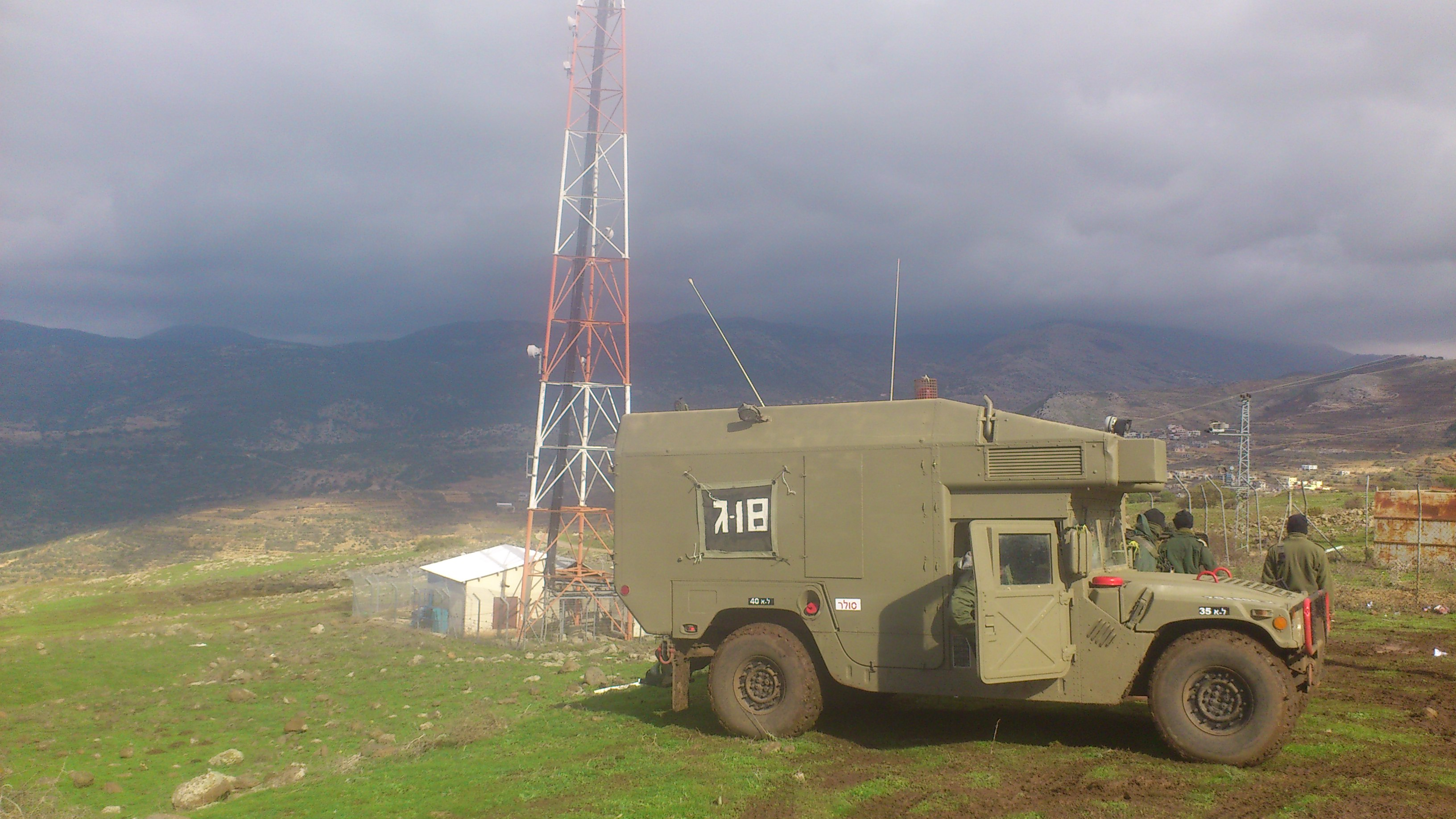 Idf hummer ambulance